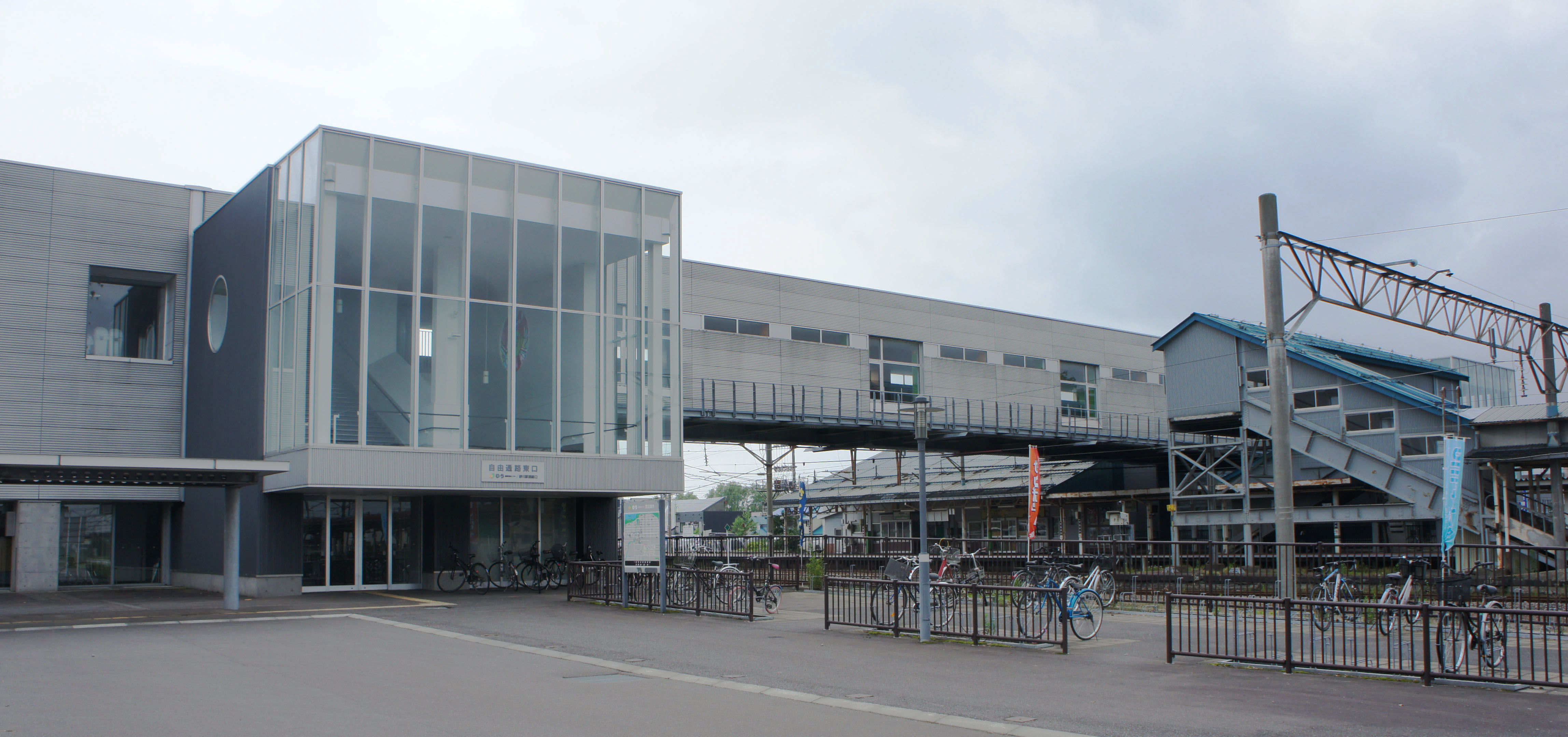 The east side of Sunagawa Station in Hokkaido, Japan